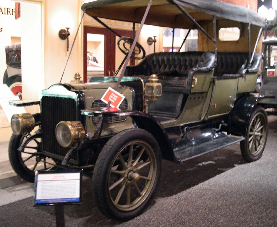 1909 White Model O From the Petersen Automotive Museum, Los Angeles, CA